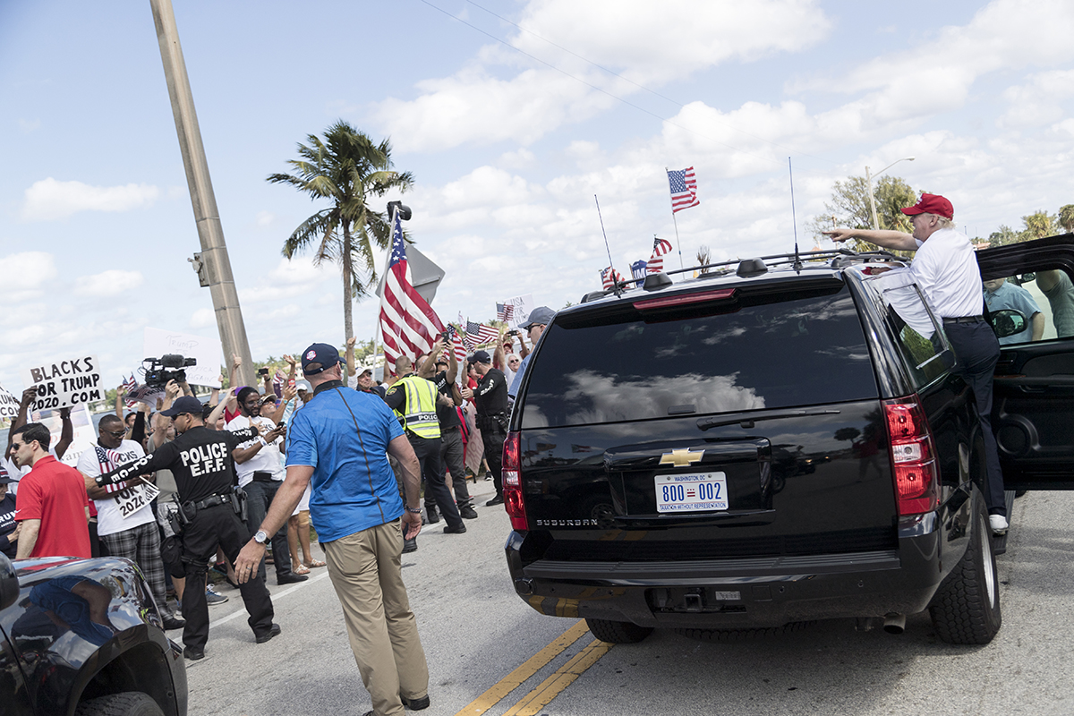 President Donald Trump waves to supporters on Saturday, March 4, 2017, in West Palm Beach, Florida. (Official White House Photo by Shealah Craighead)